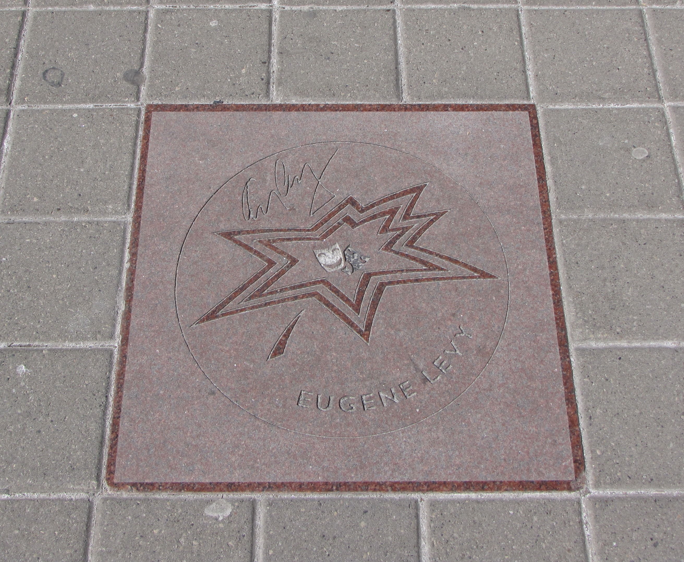 Eugene Levy's star on Canada's Walk of Fame